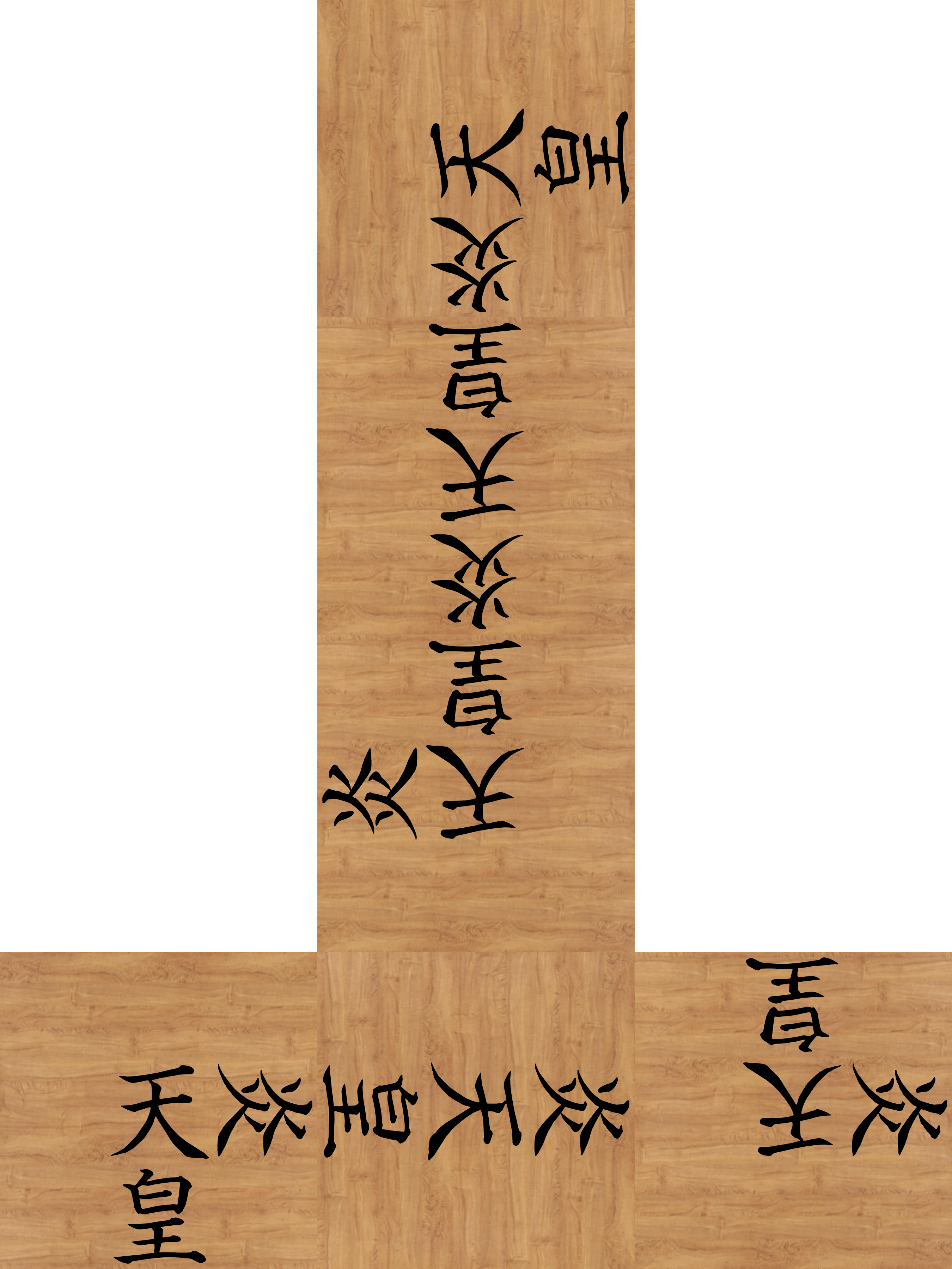 The saishō shōgi dice-shaped piece development